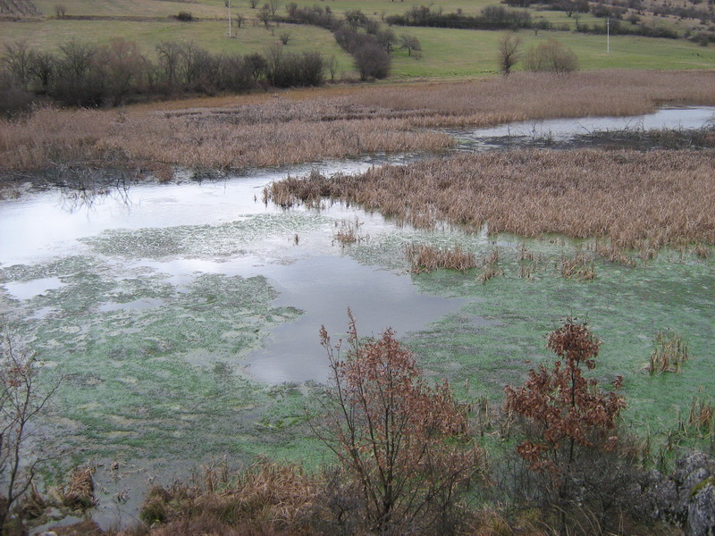 Krupačko lake